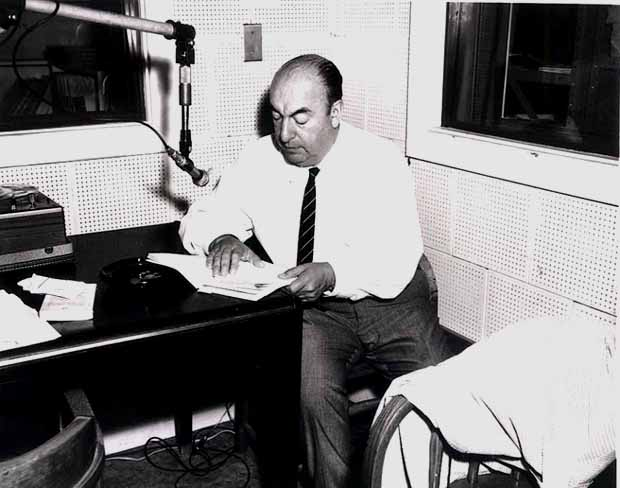 Pablo Neruda during a Library of Congress recording session, 20 June 1966